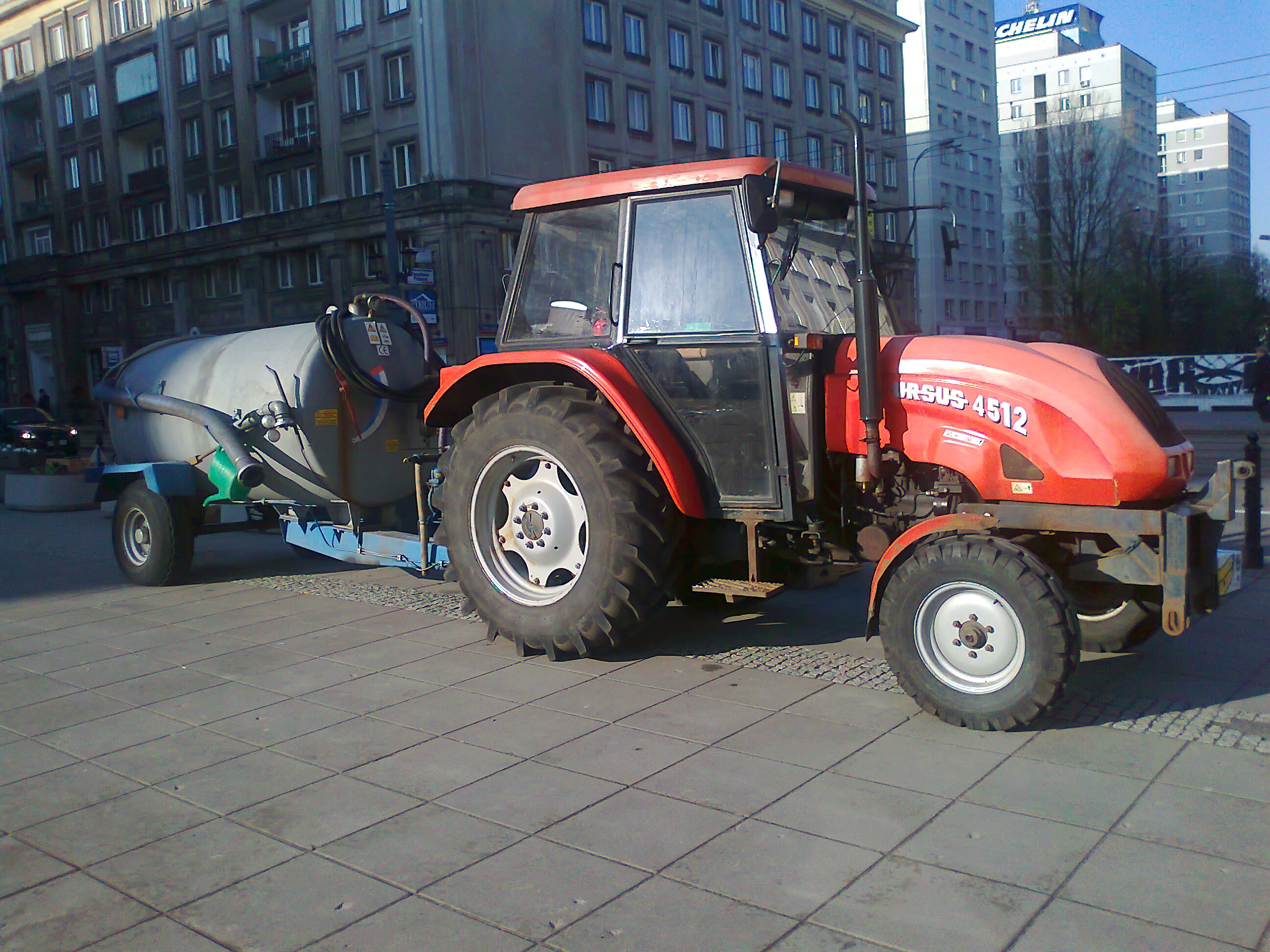 Ursus 4512 tractor in Warsaw